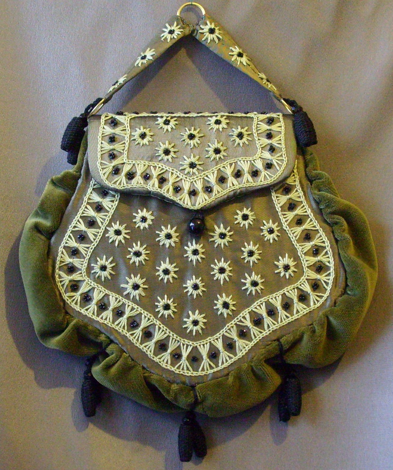 This bag consists of a buckram frame, covered in embroidered silk taffeta. Tiny black glass pearls from a late Victorian mourning dress highlight the design. The outside is covered in velvet. A bag such as this would have been "hooked" into the waist of the skirt and dangled down the side of the hips.